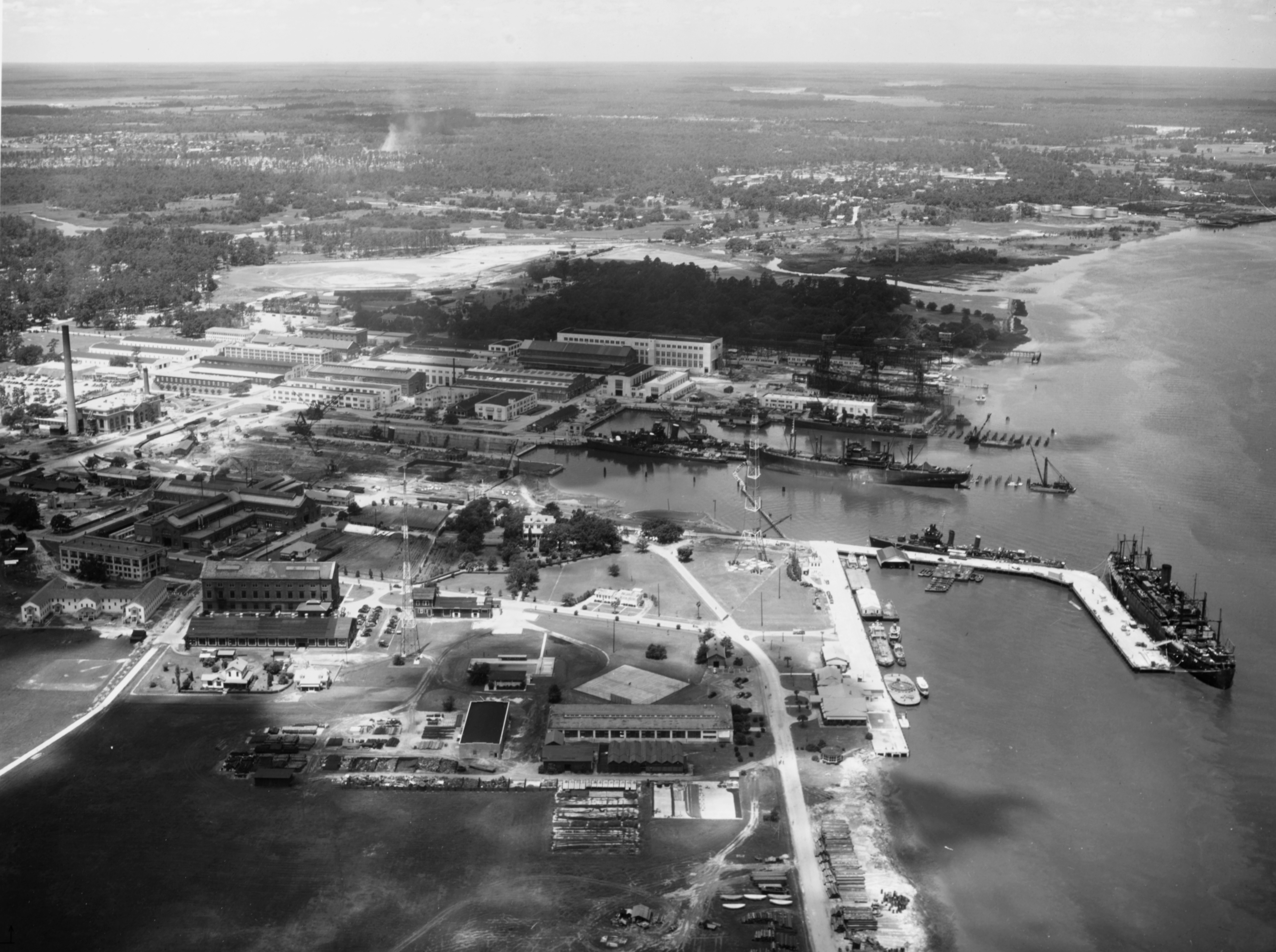 The U.S. Charleston Naval Shiyard, South Carolina (USA), preparing ships for war in 1941. The large ship on the right is probably USS Leonard Wood (AP-25), converting from an Army transport. The freighter is probably USS Hamul (AK-20), converting from a merchantman. The two two-stack destroyers at the piers are probably USS Swanson (DD-443) and USS Ingraham (DD-444) fitting out. The single-stack destroyers (2 pier side and 1 in dry dock) are probably USS Mayrant (DD-402), USS Trippe (DD-403), and USS Rhind (DD-404) in from neutrality patrol. The ships building on the ways just beyond the piers are probably USS Corry (DD-463) and USS Hobson (DD-464). Beyond them, barely visible are two more ships on another pair of ways, probably USS Beatty (DD-640) and USS Tillman (DD-641). Four of the ships afloat were commissioned between May and July 1941. The photo, taken at 300 meters, was dated 24 July 1941 and was probably taken slightly earlier. Note the Yard craft pier side in the foreground.